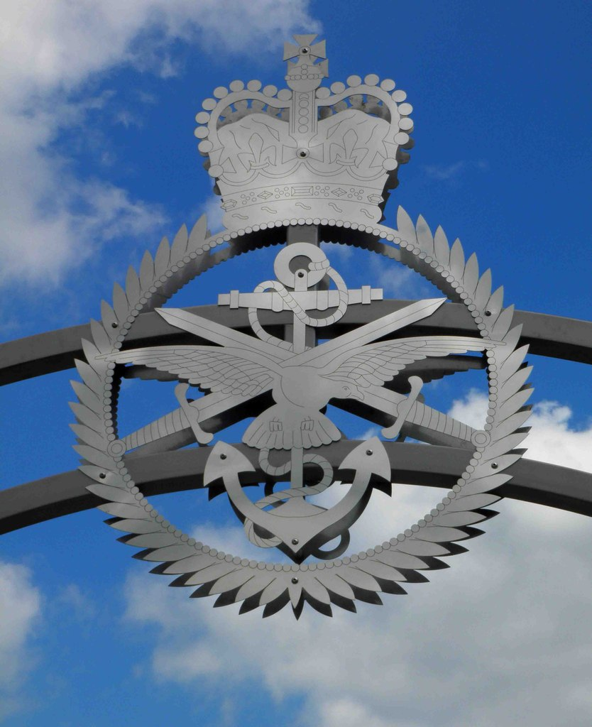 Detail above the newly dedicated memorial gate, Cleethorpes